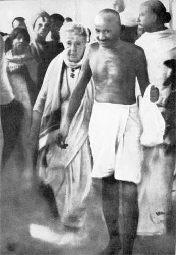 Mahatma Gandhi with Dr. Annie Besant in Madras, September, 1921. In Madurai, Gandhi had adopted the loin-cloth for the first time as a mark of his identification with India's poor.